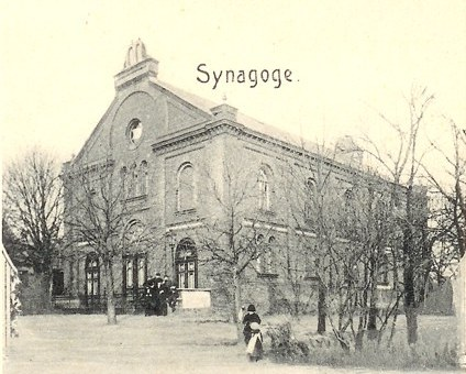 Synagogue in Kcynia